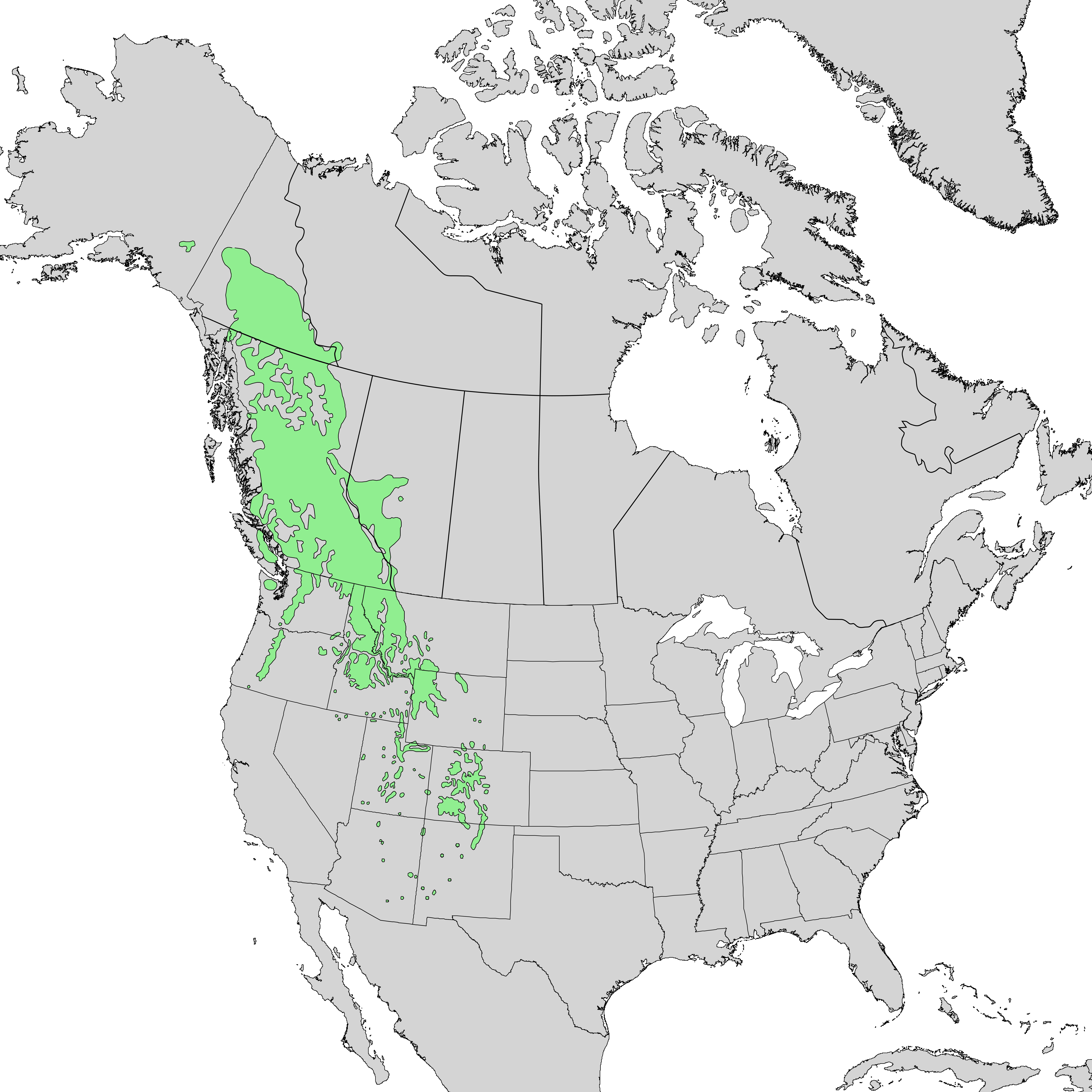 Distribution map for Abies lasiocarpa (Hook.) Nutt. - subalpine fir